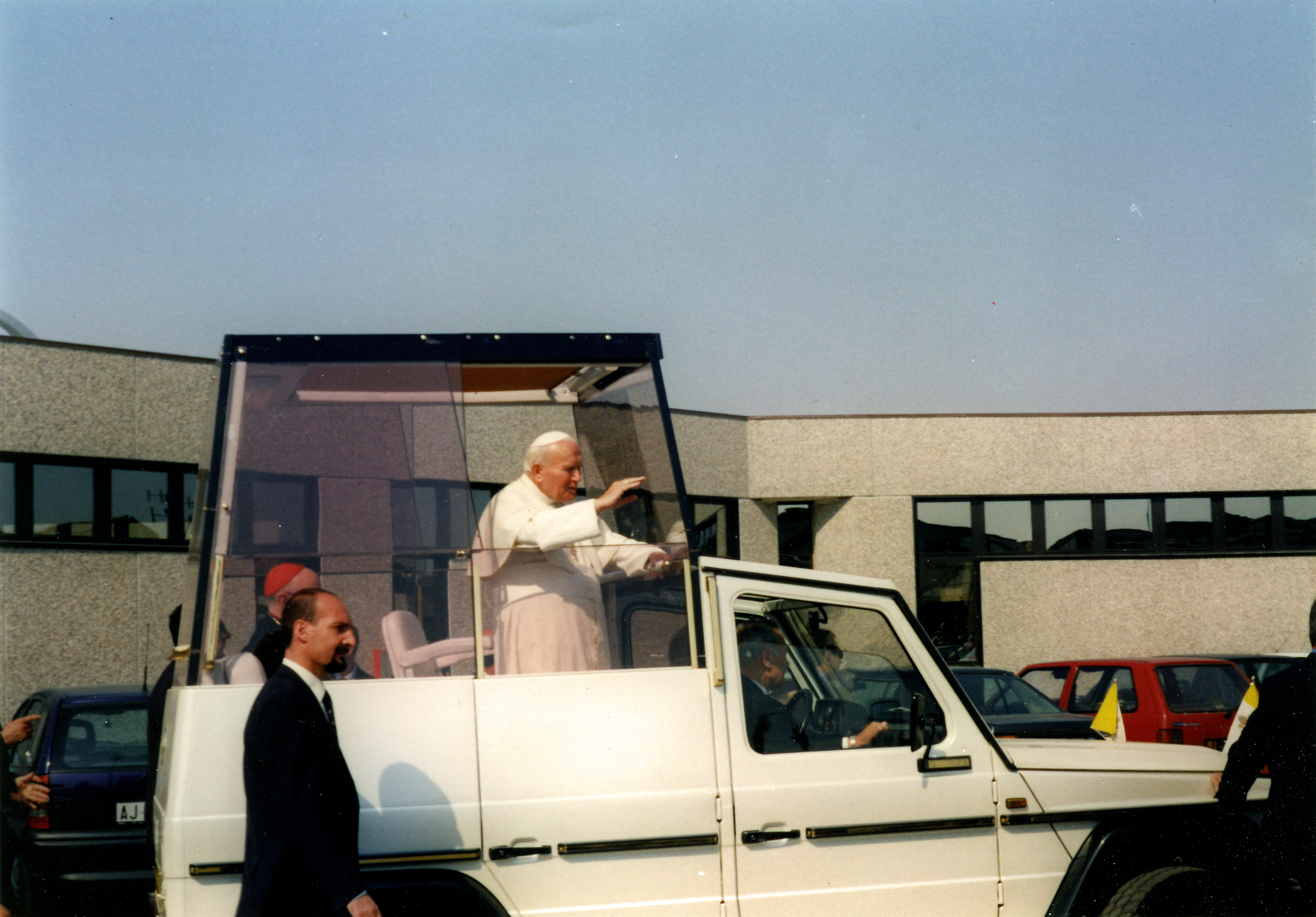 Pope John Paul II in Bologna, during the Great Jubilee in 2000